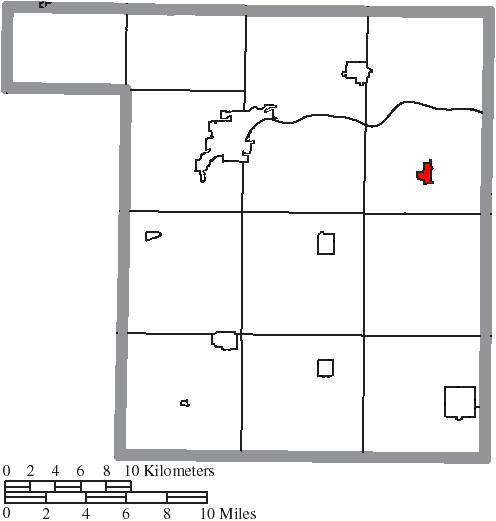 Map of the municipal and township boundaries of Henry County, Ohio, United States, as of the 2000 census, with the location of the village of McClure highlighted. Township borders are shown only in unincorporated areas in order to differentiate incorporated and unincorporated areas more clearly.